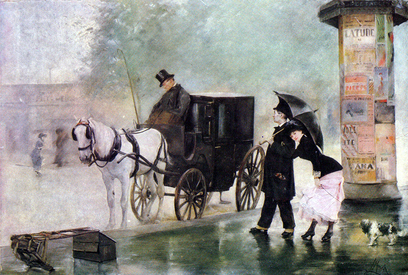 The Cabdriver, oil on canvas (39 x 56 cm)